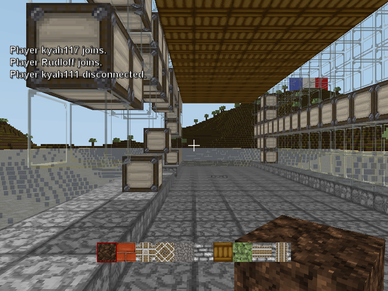 A screenshot of Manic Digger (public domain Minecraft clone)